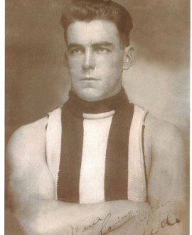 Photograph of Clyde Smith in 1922